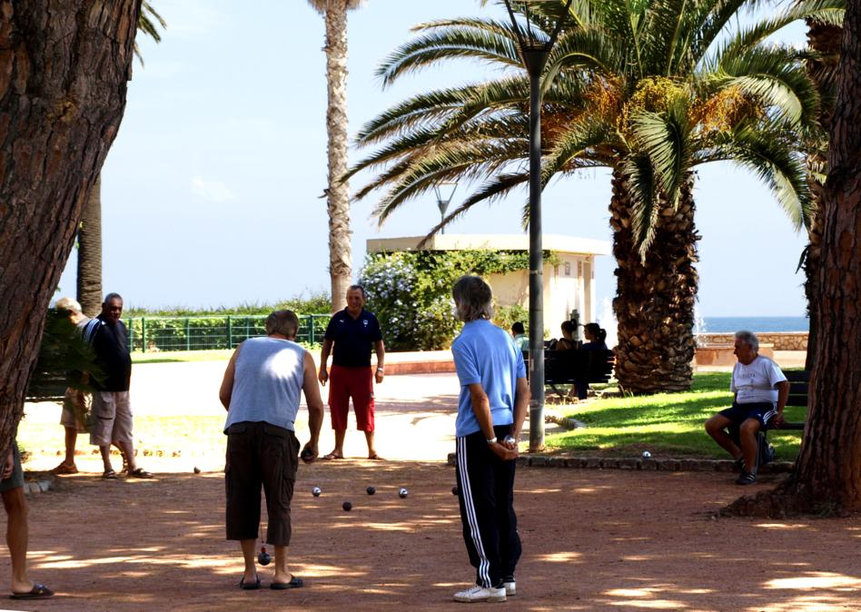 Pétanque players in Antibes